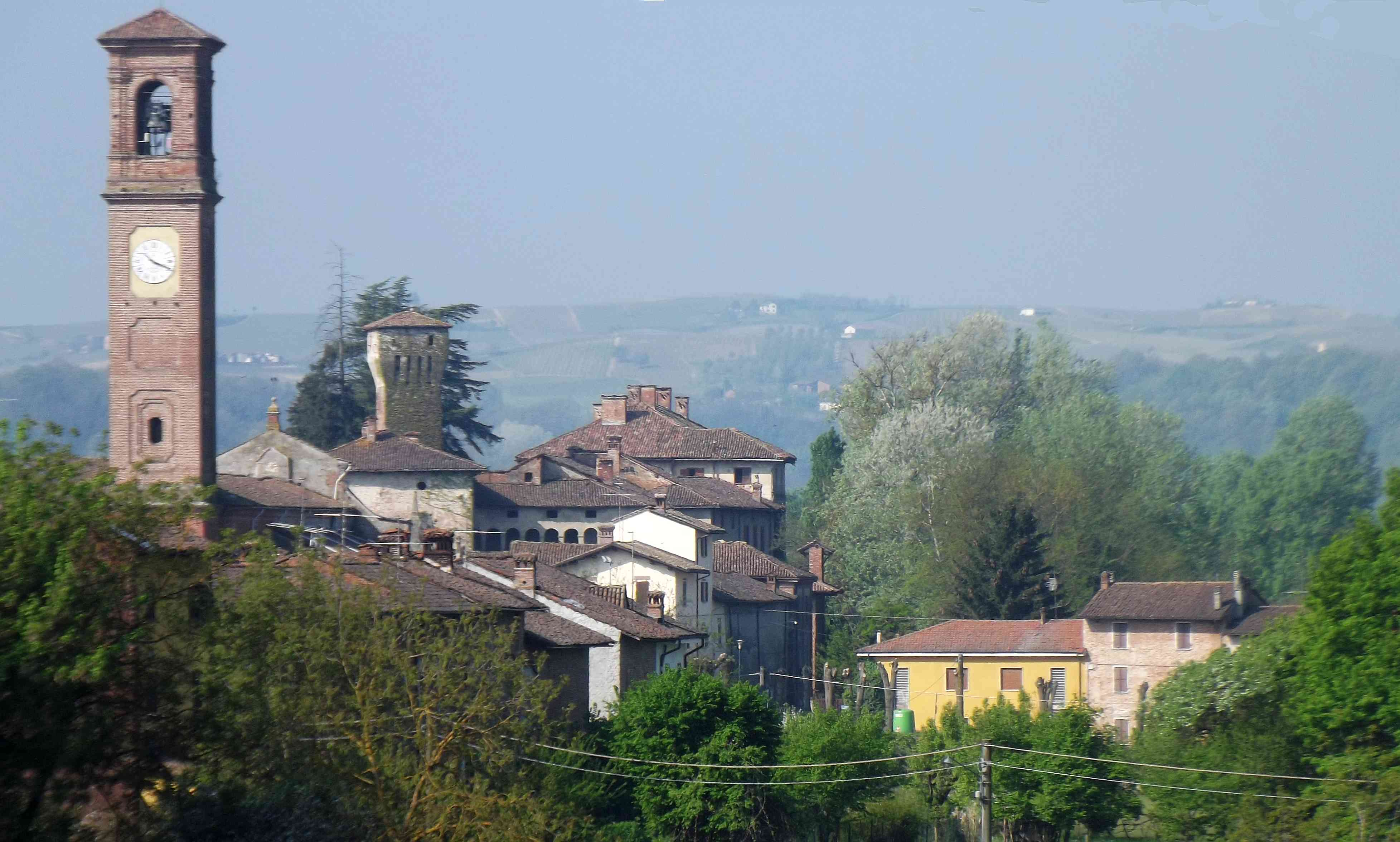 Castelnuovo Bormida (AL, Italy): panorama